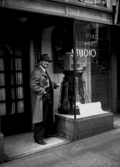 Paul Tutmarc outside his music studio at 804 Pine St. in Seattle, Washington, U.S. He is known as the inventor of electrically-amplified double basses, electric basses, and lap steel guitars, etc.